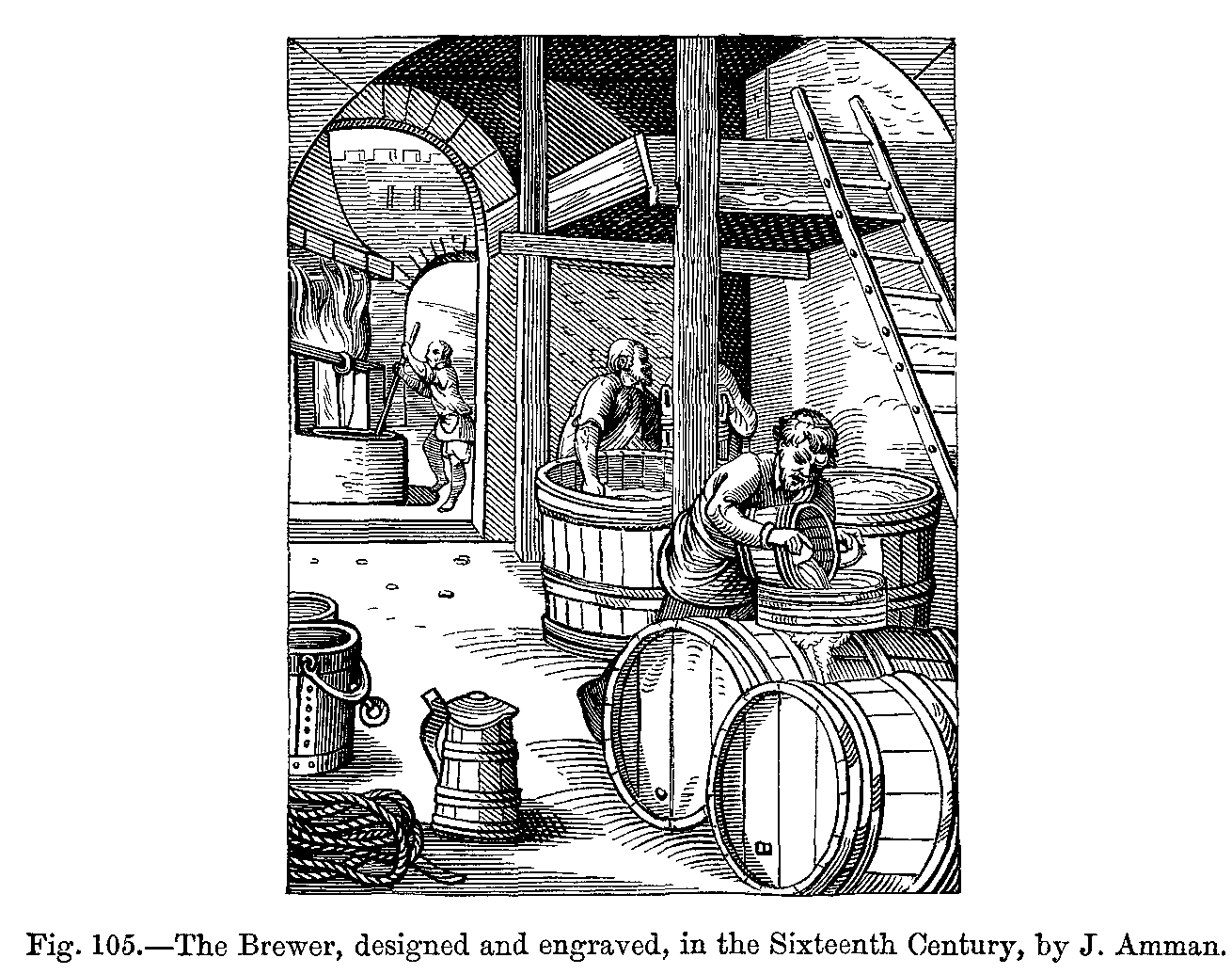 Brewer from Das Ständebuch (The Book of Trades), 1568